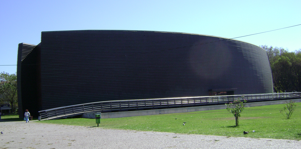 A view of the Centro Multimeios Espinho where the Espinho Planetarium is located